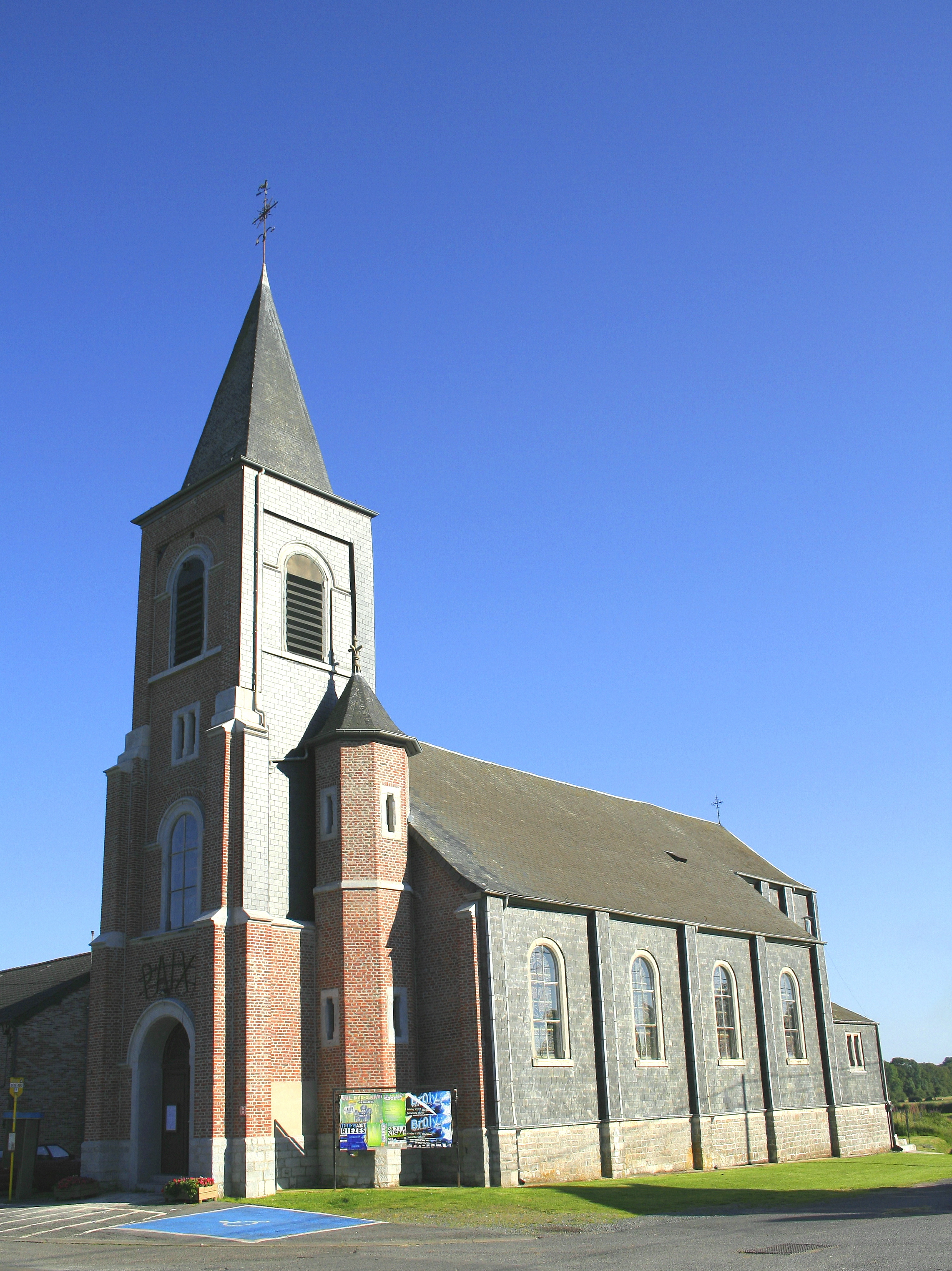 Petite-Chapelle (Belgium), the Our Lady of the Assumption church (1867).